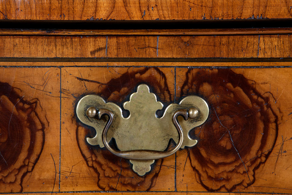 George III oyster burl yew wood chest of drawers with two drawers over four drawers. The top, sides and front are presented with wonderful oyster burl, with string inlays of ebony and satinwood, and banded in walnut. Brass pulls are present on the drawers and the sides. This chest rest on bracket feet. England, 19th Century. Length 117 cm, depth 56 cm, height 114 cm.